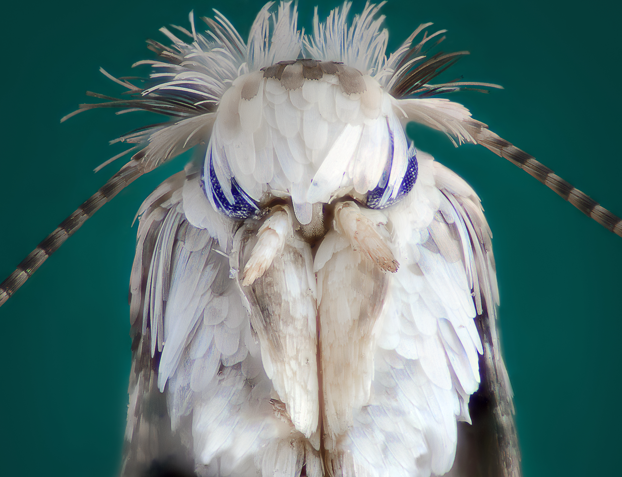 Tineola bisselliella, known as the common clothes moth, webbing clothes moth, or simply clothing moth, is a species of fungus moth (family Tineidae, subfamily Tineinae). It is the type species of its genus Tineola. The specific name is commonly misspelled biselliella – for example by G. A. W. Herrich-Schäffer, when he established Tineola in 1853